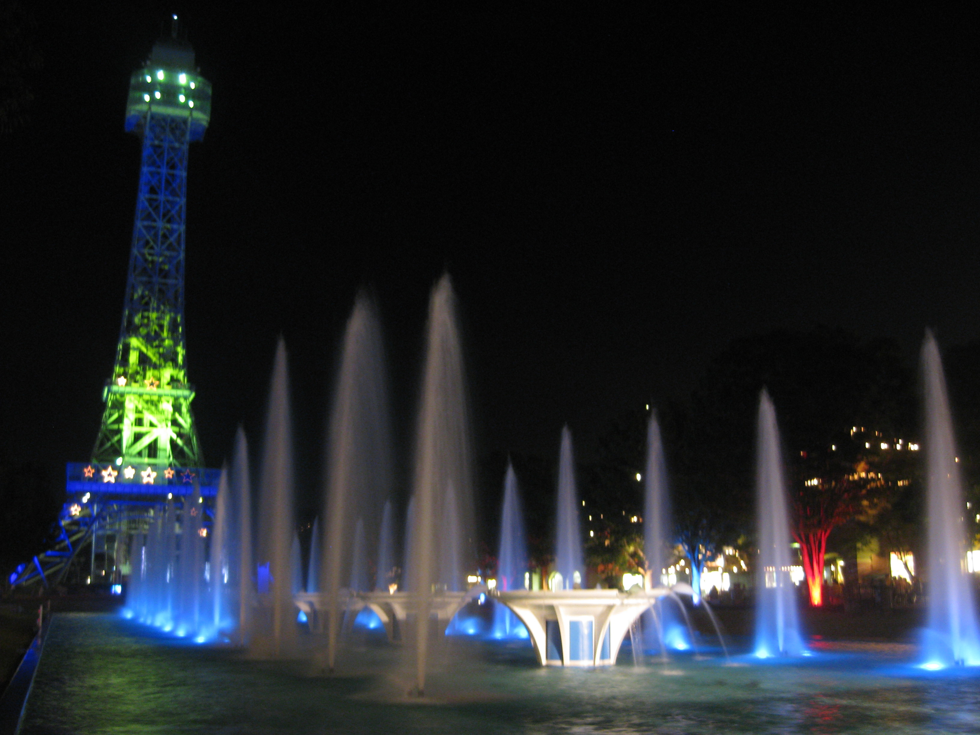 Cincinnati: Kings Island